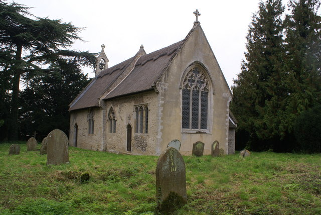 Barton Bendish, St Mary's Church Lovely thatched church, now sadly redundant, but looked after.